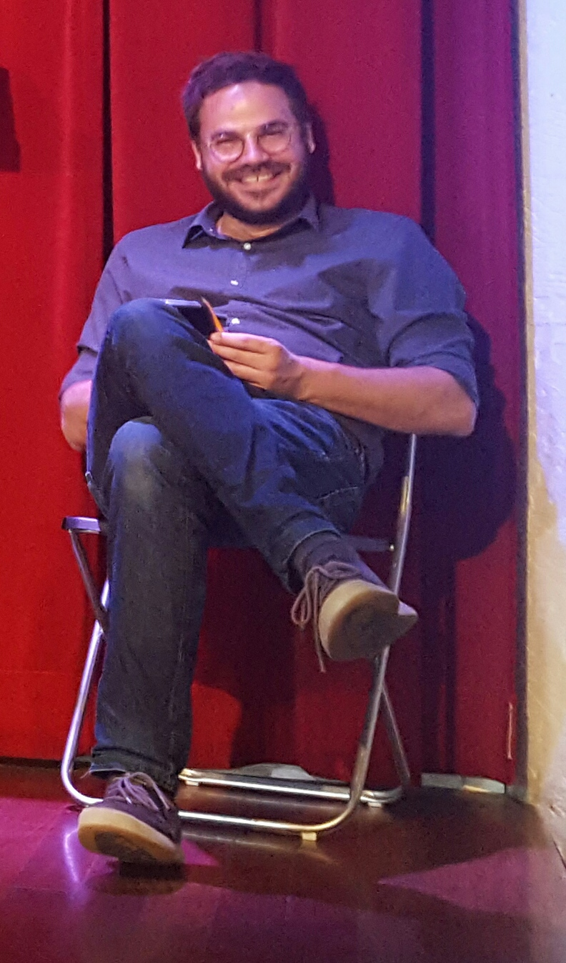 Sébastien Huberdeau photographed in Montréal, Québec, Canada inside the L'artère coop.